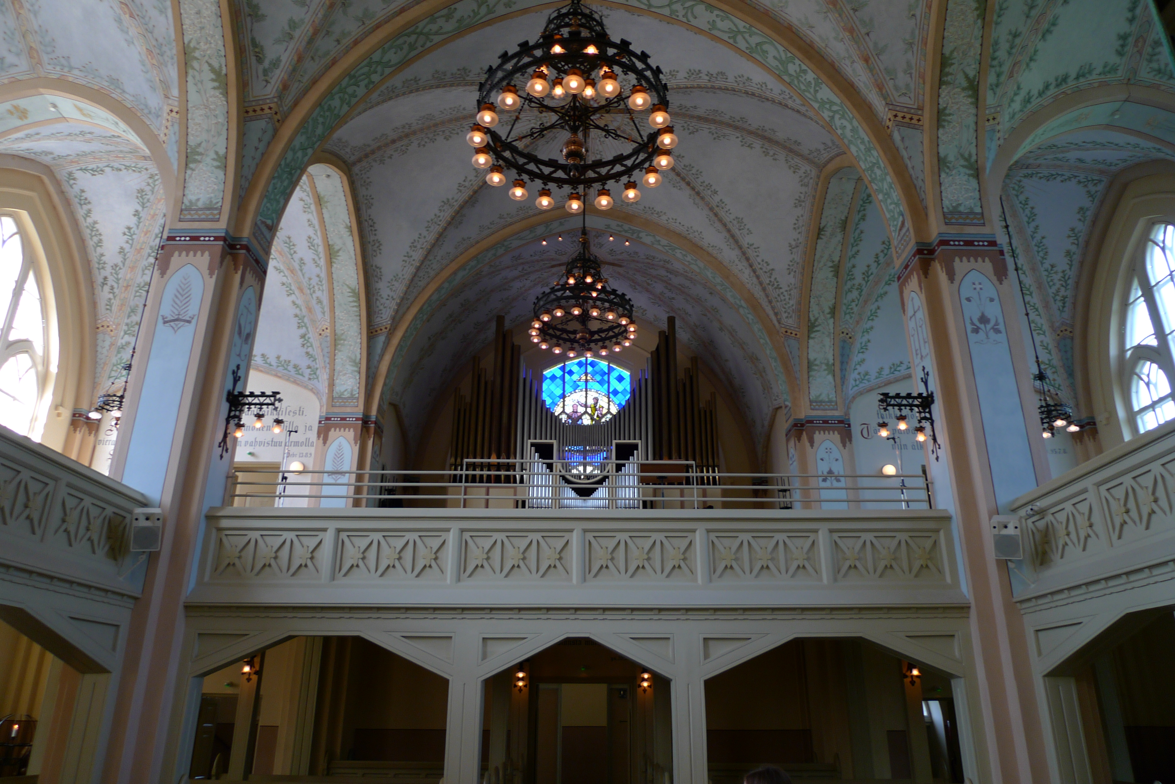 Interior of Joensuu Church in Joensuu, Finland